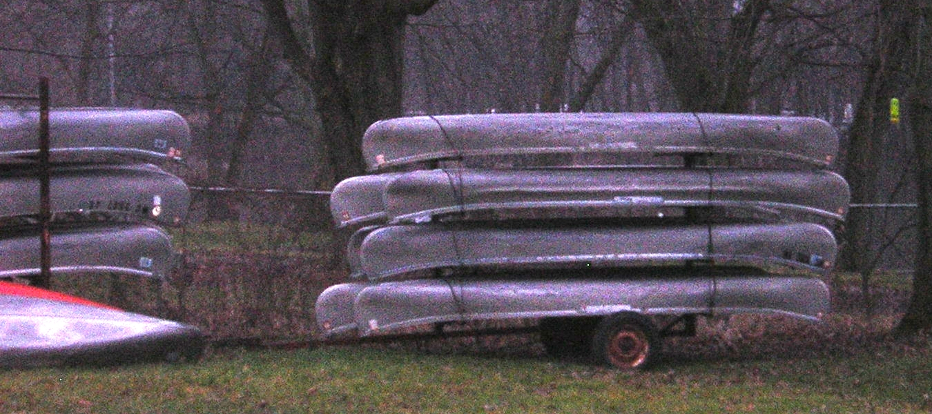 An elderly canoe trailer near Nashville, Michigan on the Thornapple River just downstream of Thornapple Lake.